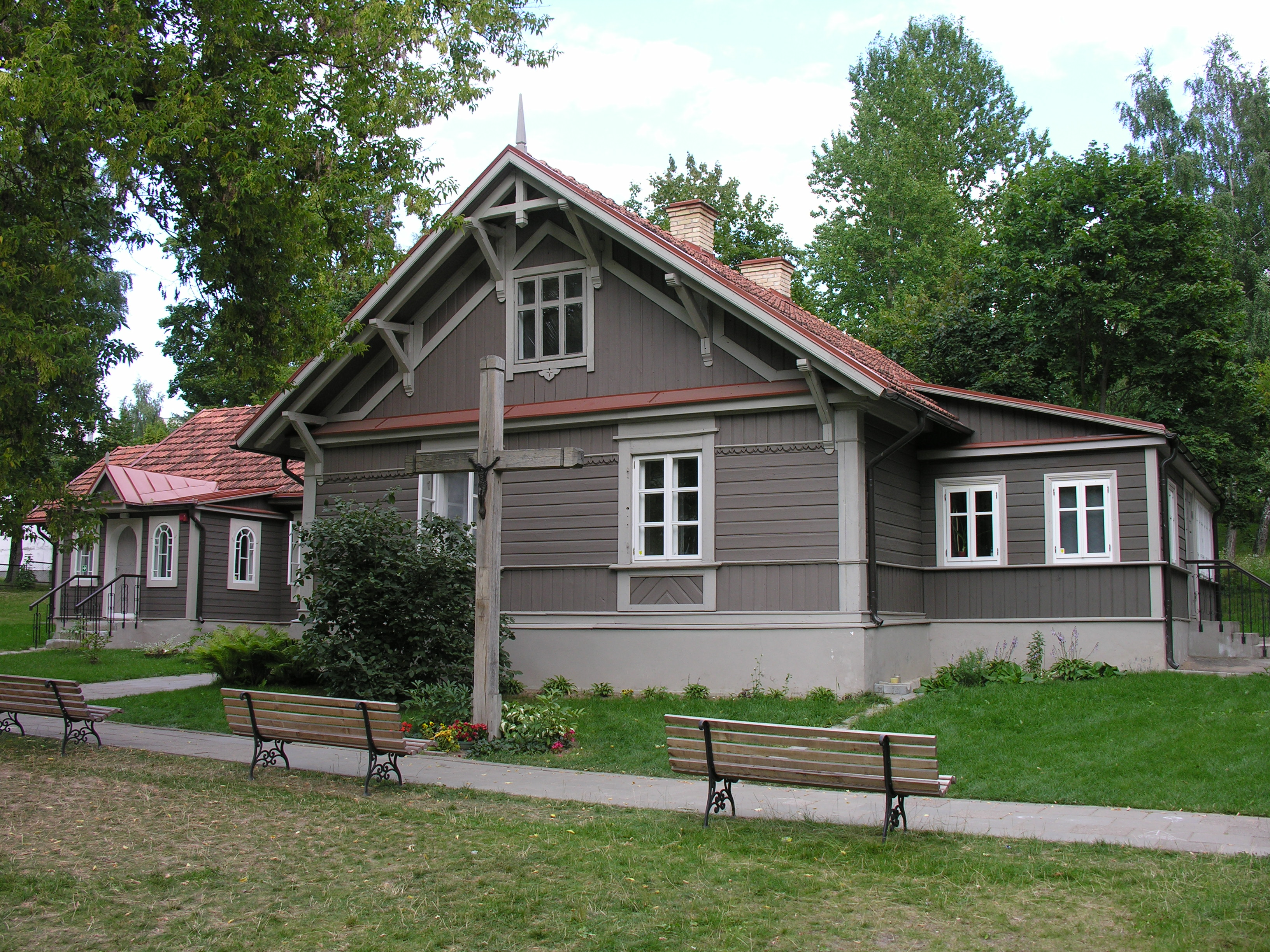 A small convent house where Faustina lived in Vilnius.